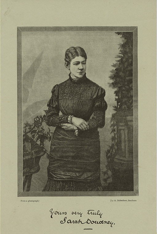 British childrens' literature author Sarah Doudney, engraved portrait with her signature underneath with an inscription.